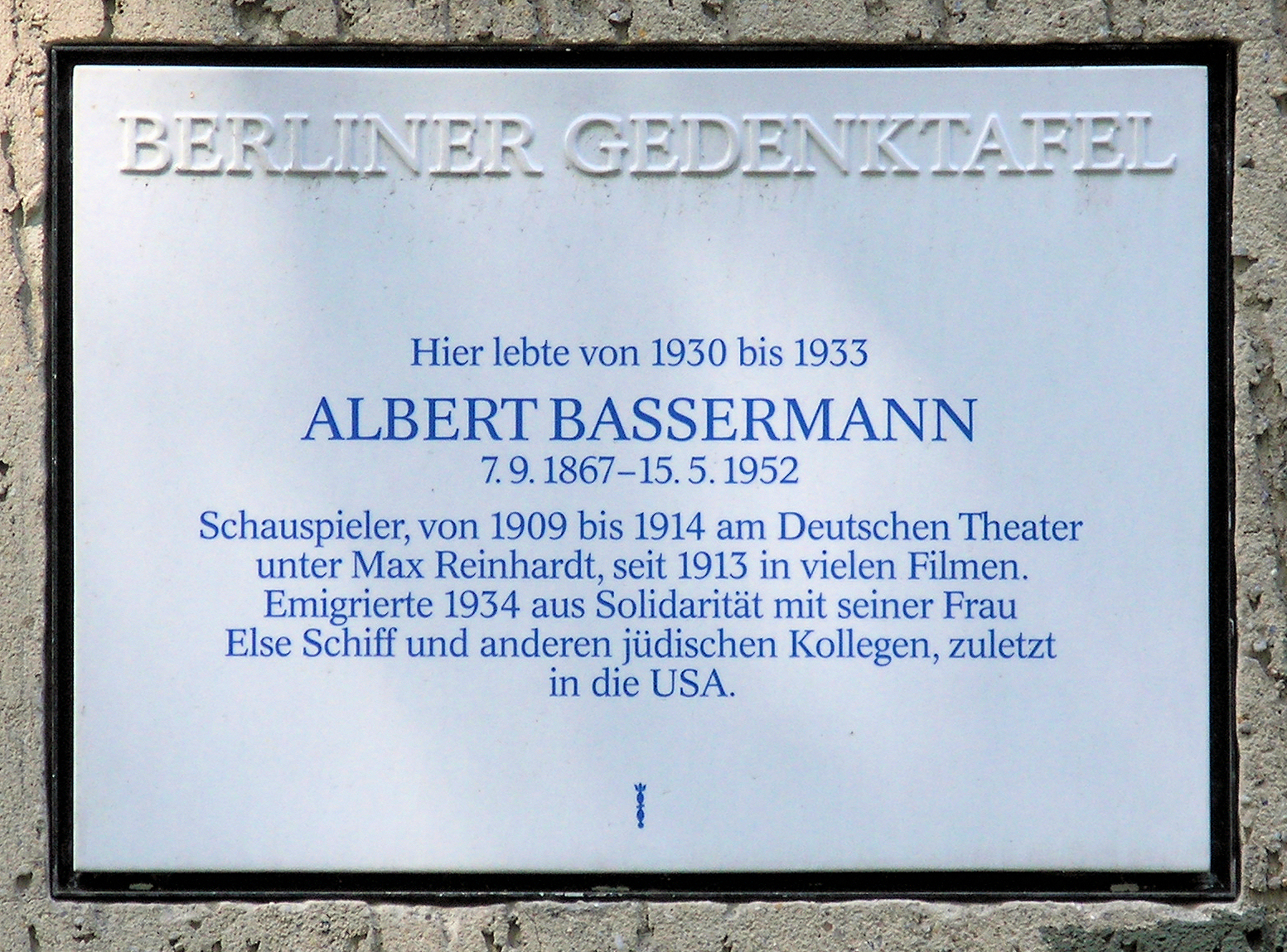 Berlin memorial plaque, Eugen Albert Bassermann, Joachim-Friedrich-Straße 54, Berlin-Halensee, Germany Koordinate:52°29′40″N 13°17′44″E / 52.49444°N 13.29556°E